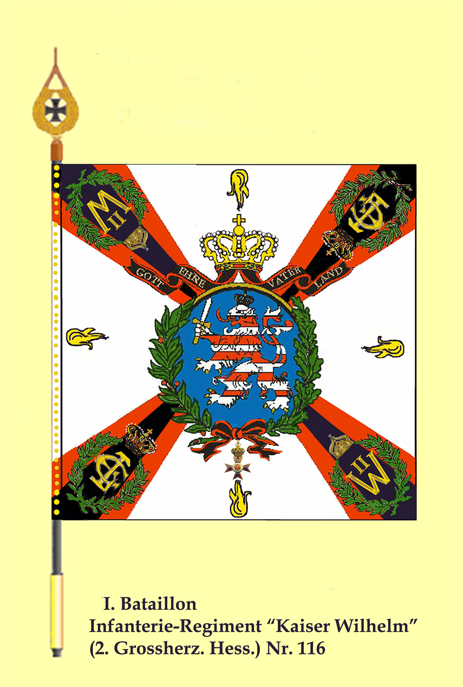 Colors of the 1st Battalion of the Grand Duke of Hesse's 116th Regiment of Infantry in the prussian army